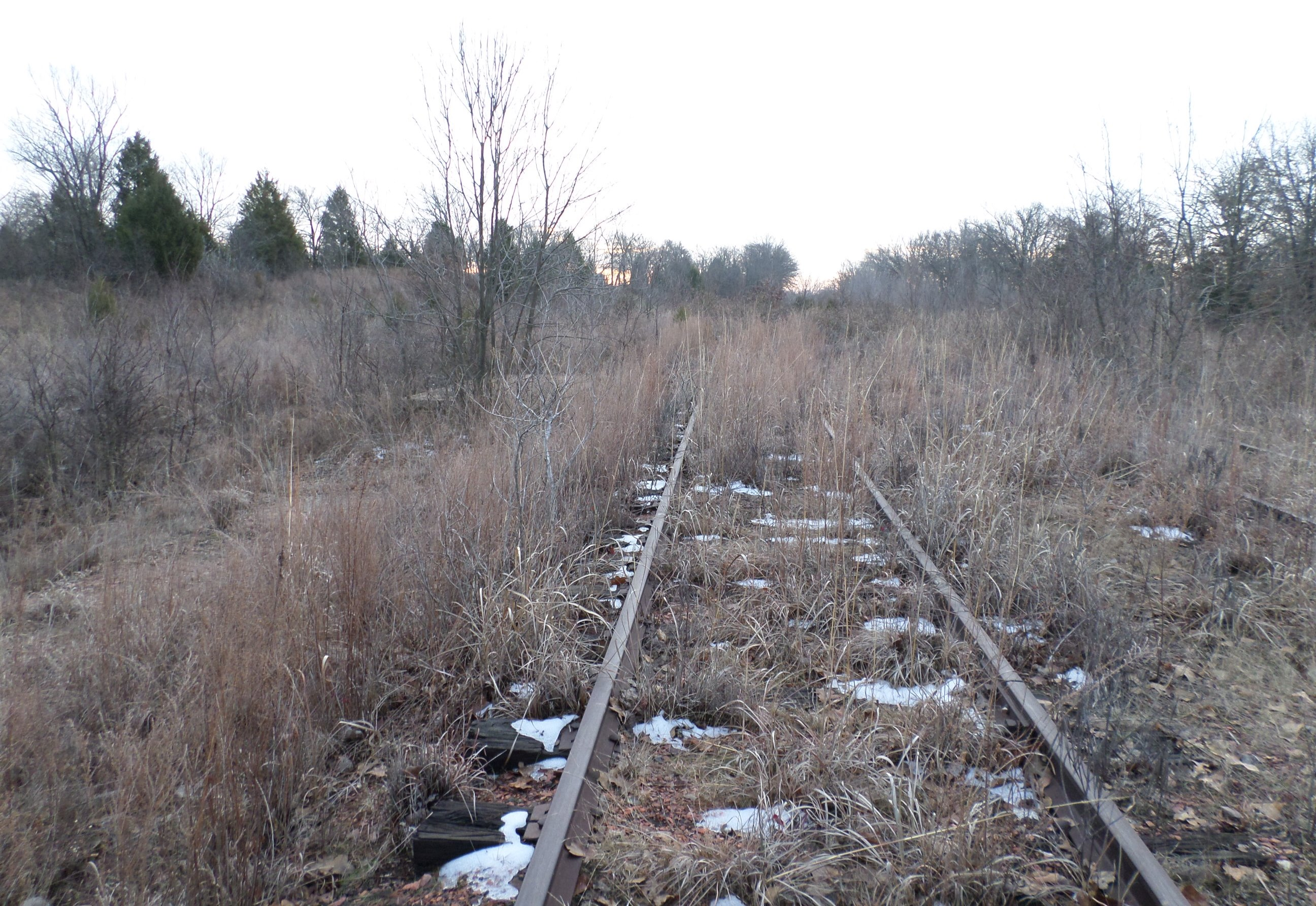 Train tracks at the site of the former Sinclair Loading Rack, located southeast of Seminole, OK. The site was listed on the National Register of Historic Places in 1985.